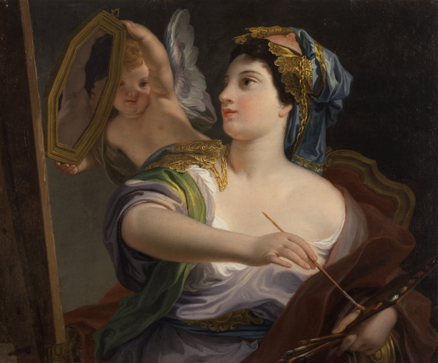 This young woman with her palette and brushes is not seriously engaged in painting. Contemplating her reflection in a mirror held by a winged cupid, she is a personification of the self-conscious beauty that was then the goal of art. A mask attached to her headdress with a golden chain symbolizes the potentially misleading view of reality that art can convey even when appearing to imitate nature. Corvi's buoyant, cheerful forms are close to those of French rococo art of the period.